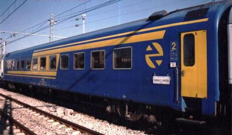 Second-class B11t 9213 coach as part of the Sierra de Gredos Diario train, in San Vincente de Calders Station-Comarruga station.